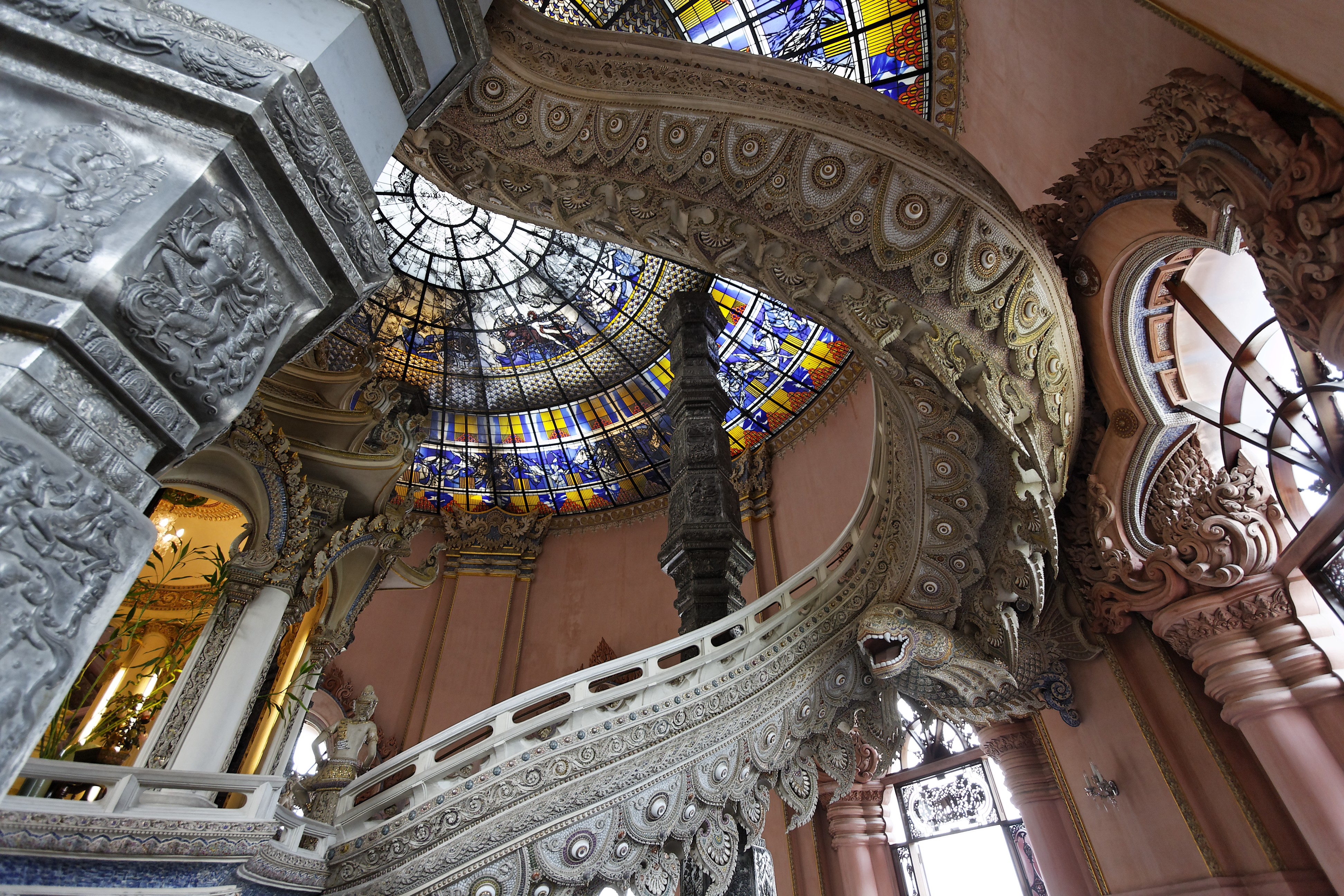 Erawan museum, Bangkok, Thailand